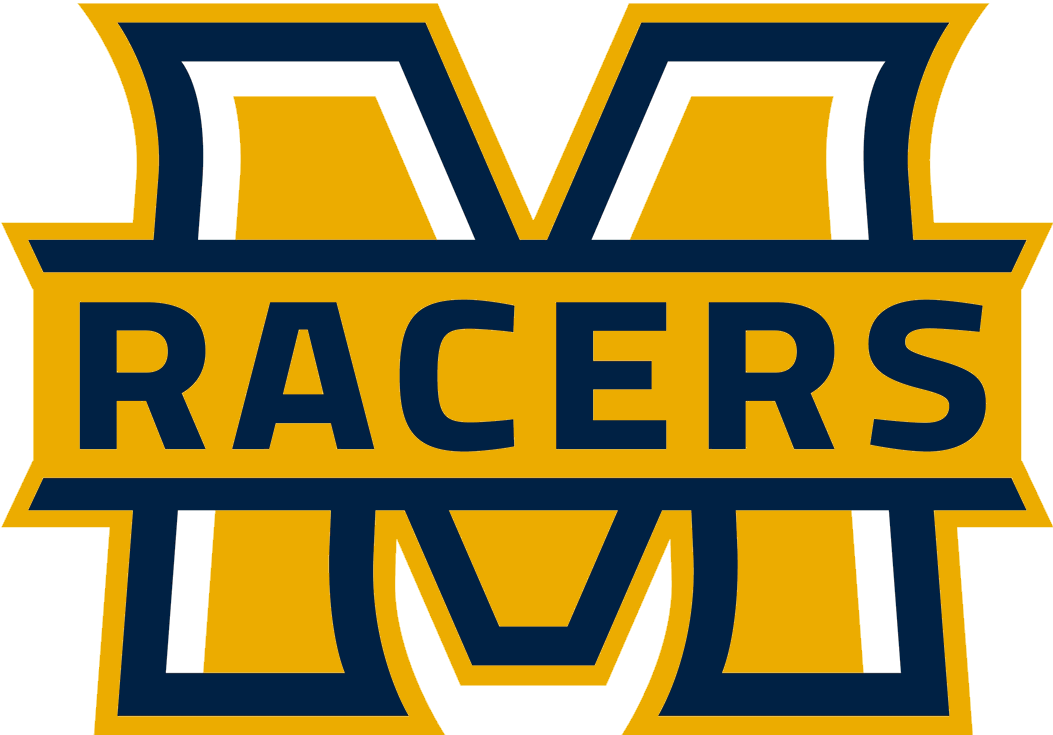 Murray State University athletics alternate logo, with a golden letter M with "RACERS" across the middle.